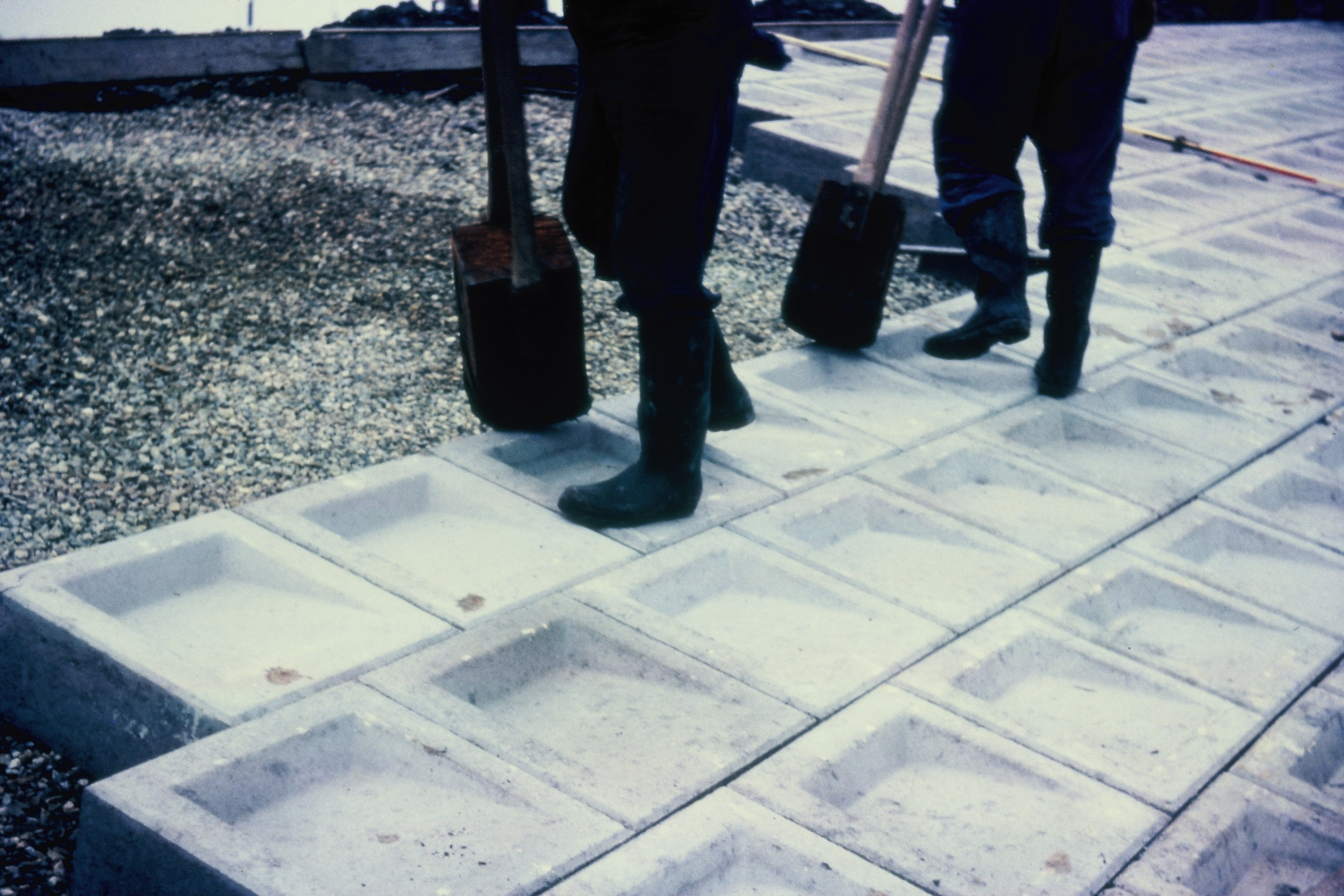 Haringman revetment blocks, as used in the Netherlands. These blocks are outdated, because they lack permeability and do not have a good weight/thickness ratio